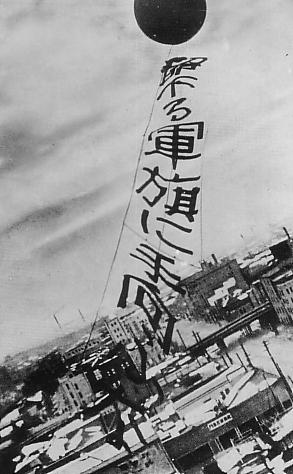 February 26 Incident Balloon Banner